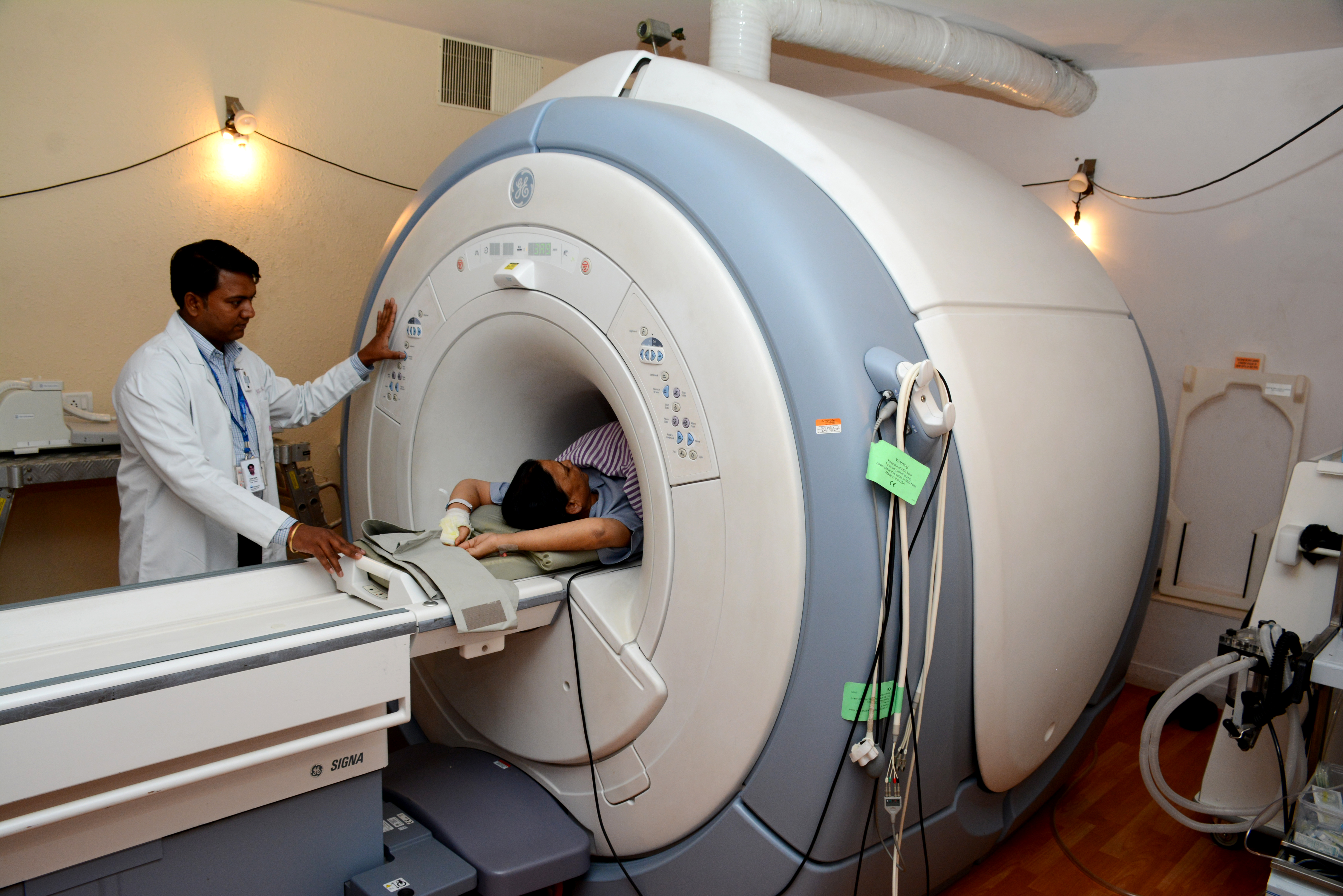 MRI Scanner at Narayana Multispeciality Hospital, Jaipur. Scanner model is a GE Signa